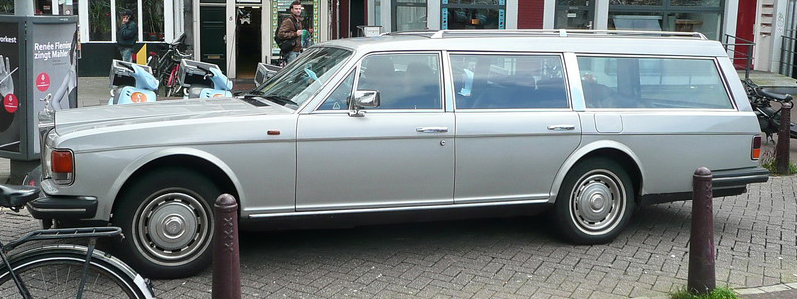 ‘Rolls-Royce Silver Spur?’